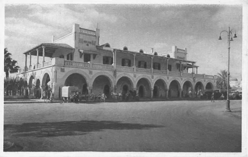 Former Benghazi Railway Central Station designed by architect Marcello Piacentini. The rough location of the station is near the Tibesty Hotel in Sidi Husein.